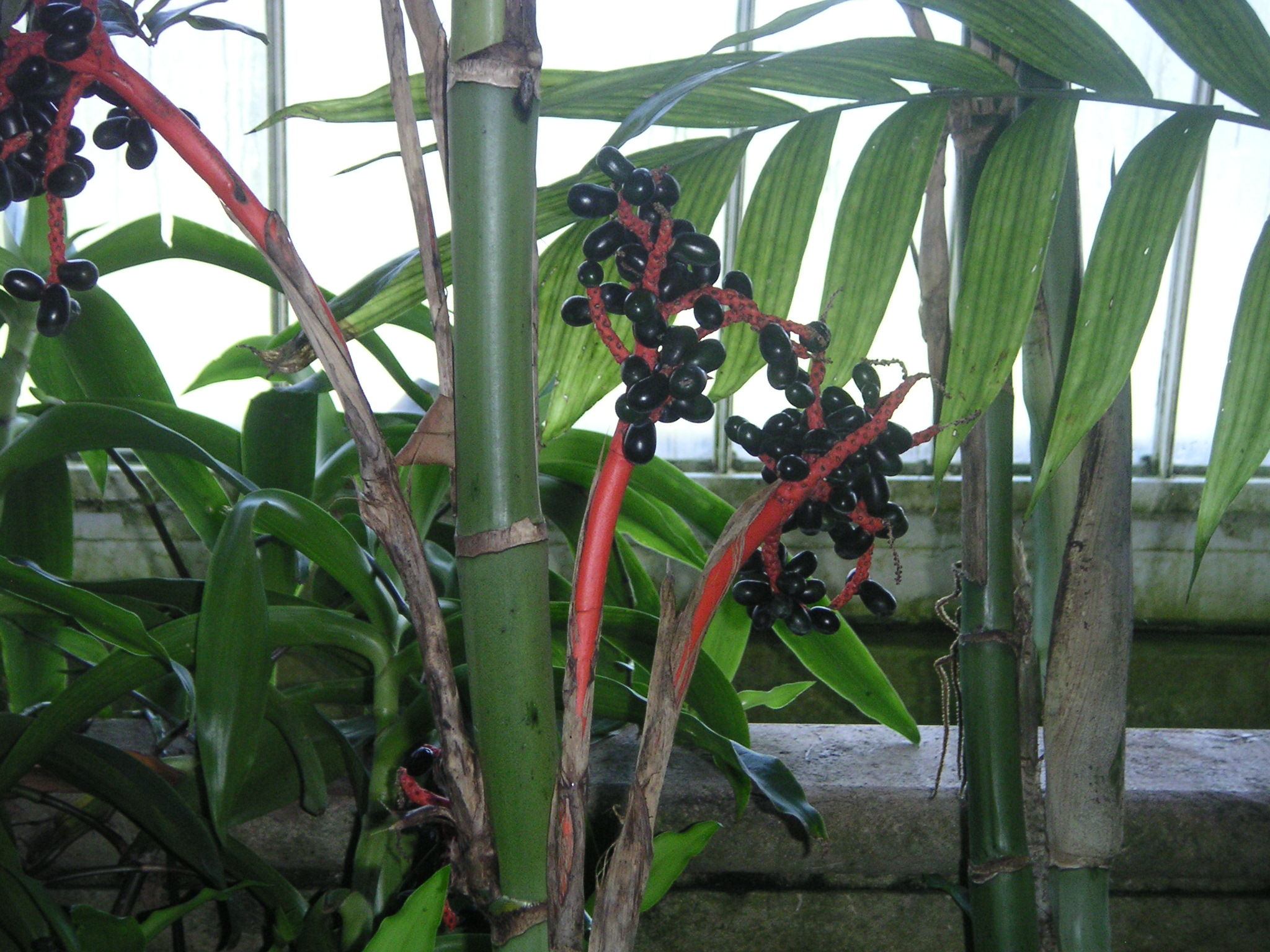 Chamaedorea alternans, Fruits, at Kew Gardens, London, UK